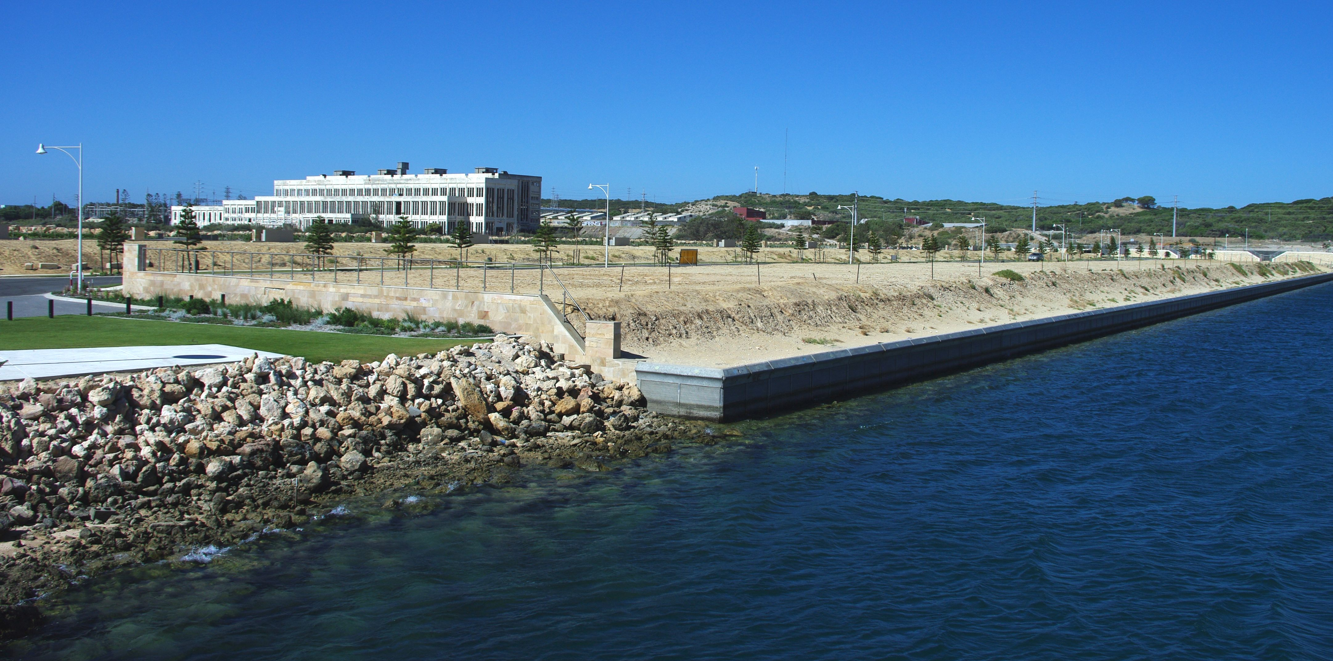 Port Coogee, after construction prior to residential developementLooking north towards the old South Fremantle Power Station